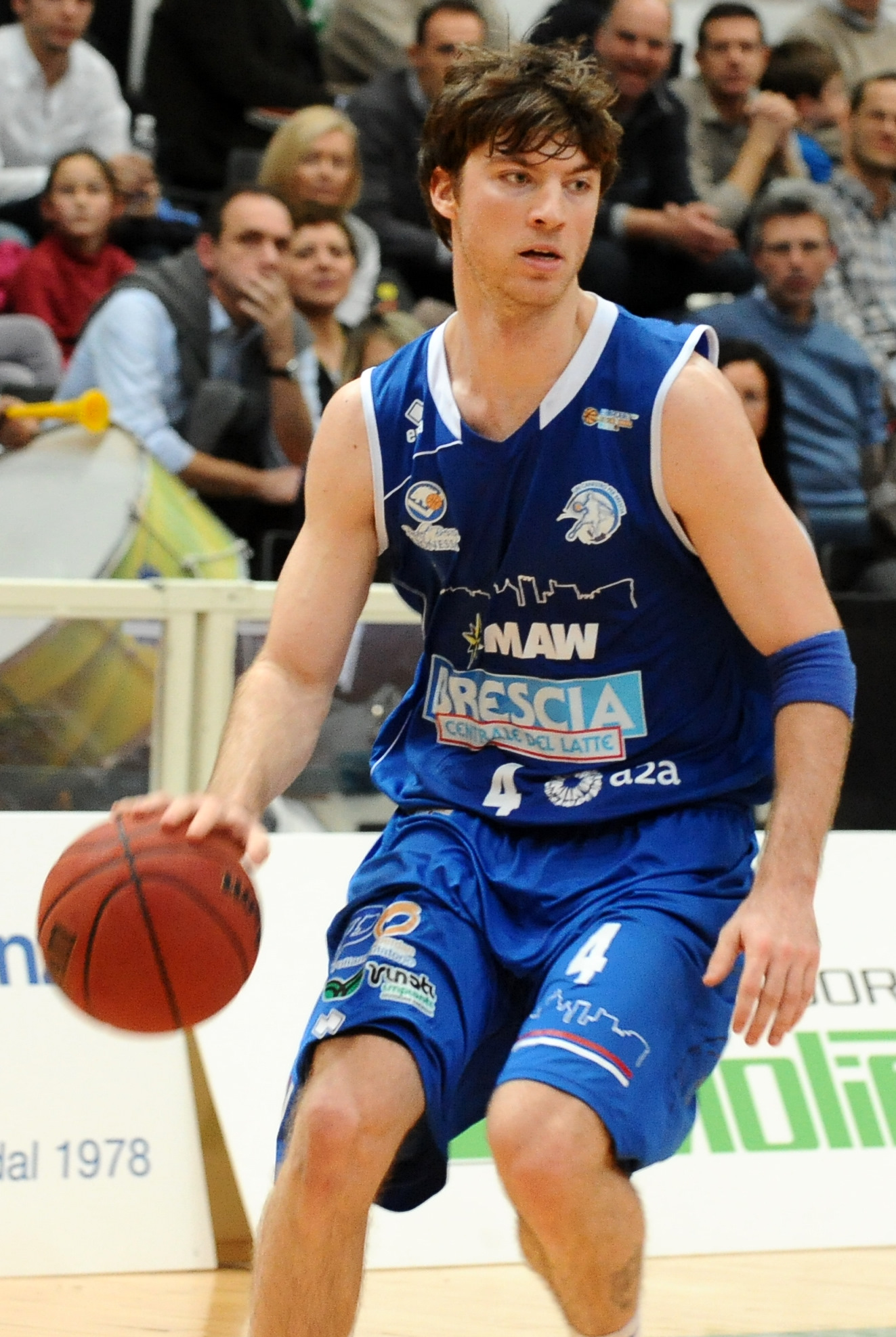 Juan Fernández (Basket Brescia Leonessa) at PalaTrento during a match against Aquila Basket Trento.